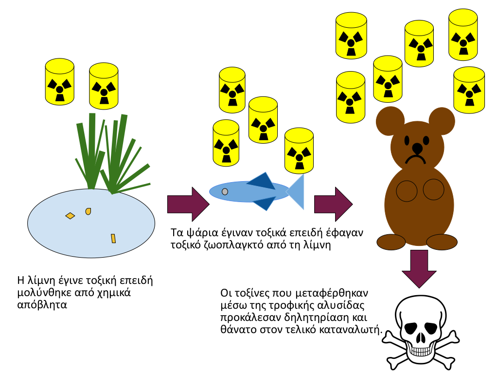 Translation of File:Bio-magnification in a pond ecosystem.svg to Greek